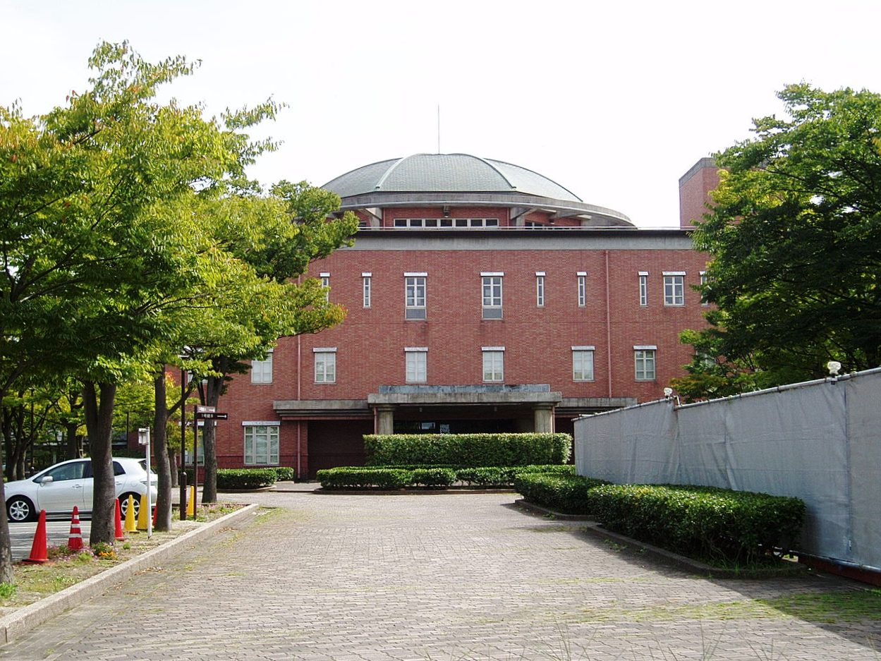 Administrative Building of the University of Niigata Prefecture, located in Higashi-ku, Niigata City, Niigata Prefecture, Japan.